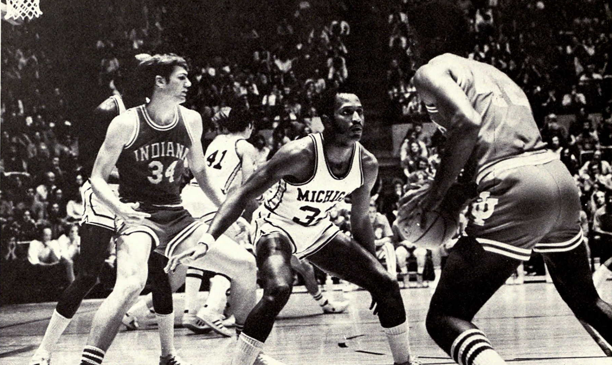 Photograph of Wayman Britt